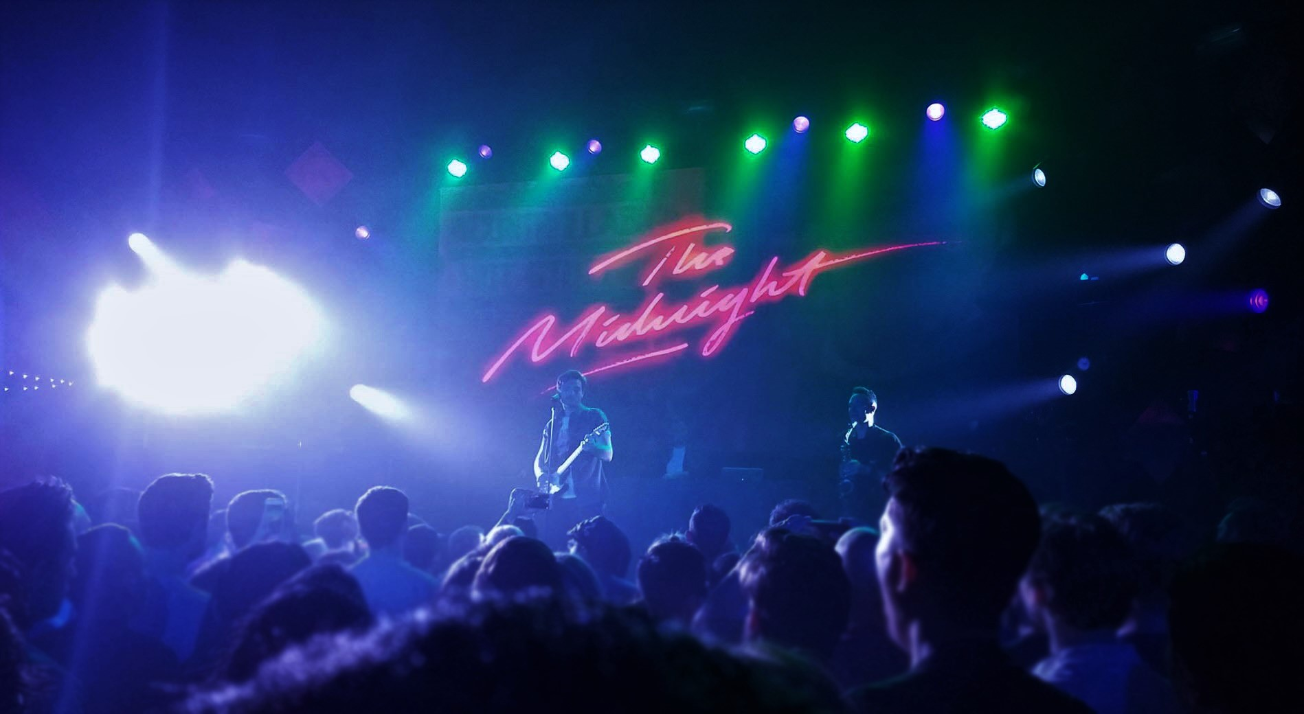 The Midnight performing on stage at The Globe Theatre, Los Angeles, CA